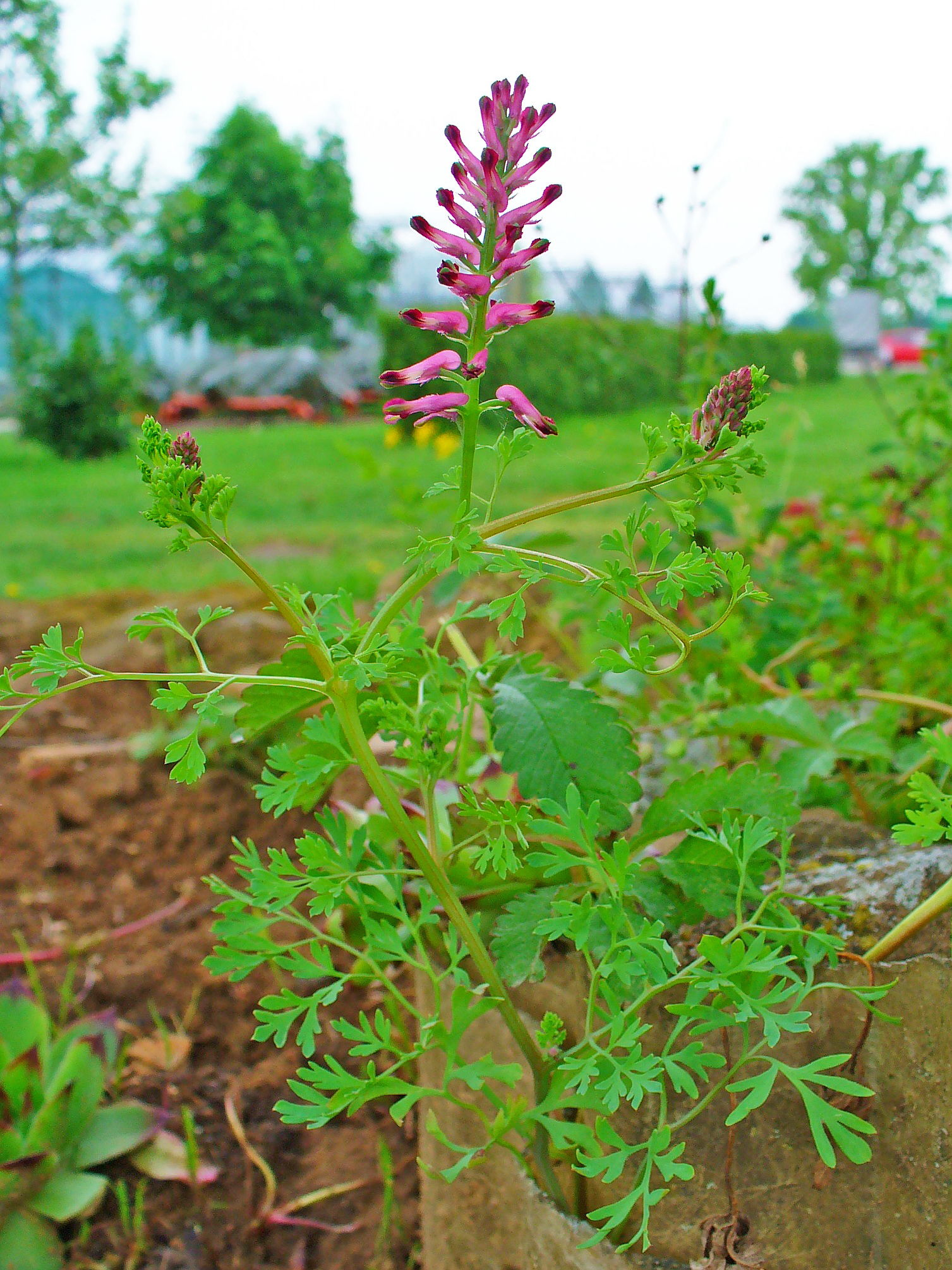 Fumaria officinalis, Papaveraceae, Common Fumitory, Earth smoke, habitus. The plant is used in homeopathy as remedy: Fumaria officinalis (Fum.)